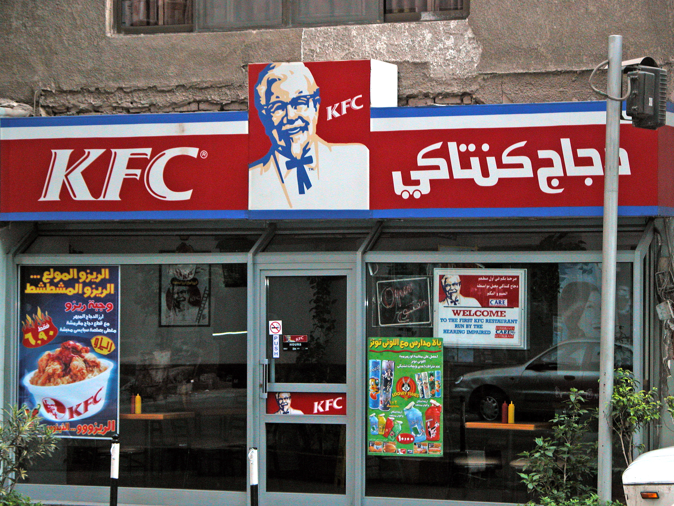 The first KFC Restaurant run by the hearing impaired.